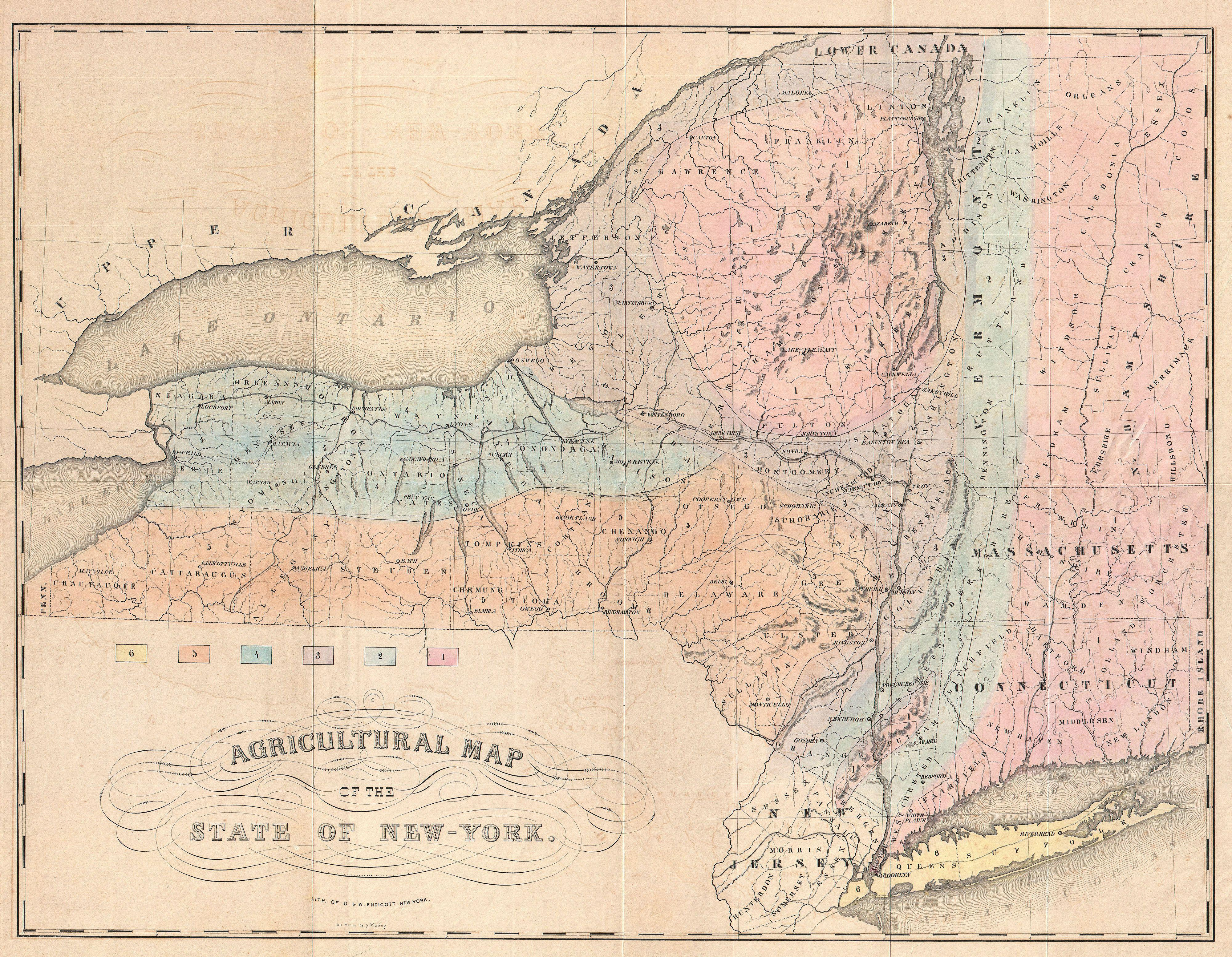 This is a rarely seen 1846 thematic of New York by E. Emmons and G. & W. Endicott. Divides the state of New York, as well as neighboring states of Connecticut, Massachusetts, New Hampshire and Vermont, into six distinct agricultural zones. It is interesting to note that even at this early date Emmons identifies the Adirondacks as an independent agricultural zone clearly definable from other nearby mountain regions. Published in 1846 to illustrated volume one of E. Emmons’ Agriculture of New York .